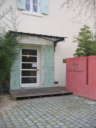 Museum of Asians arts in Toulon in France.